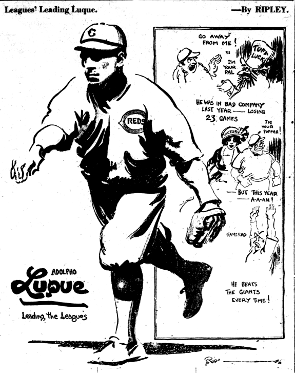 Baseball player Dolf Luque drawn by Robert Ripley.